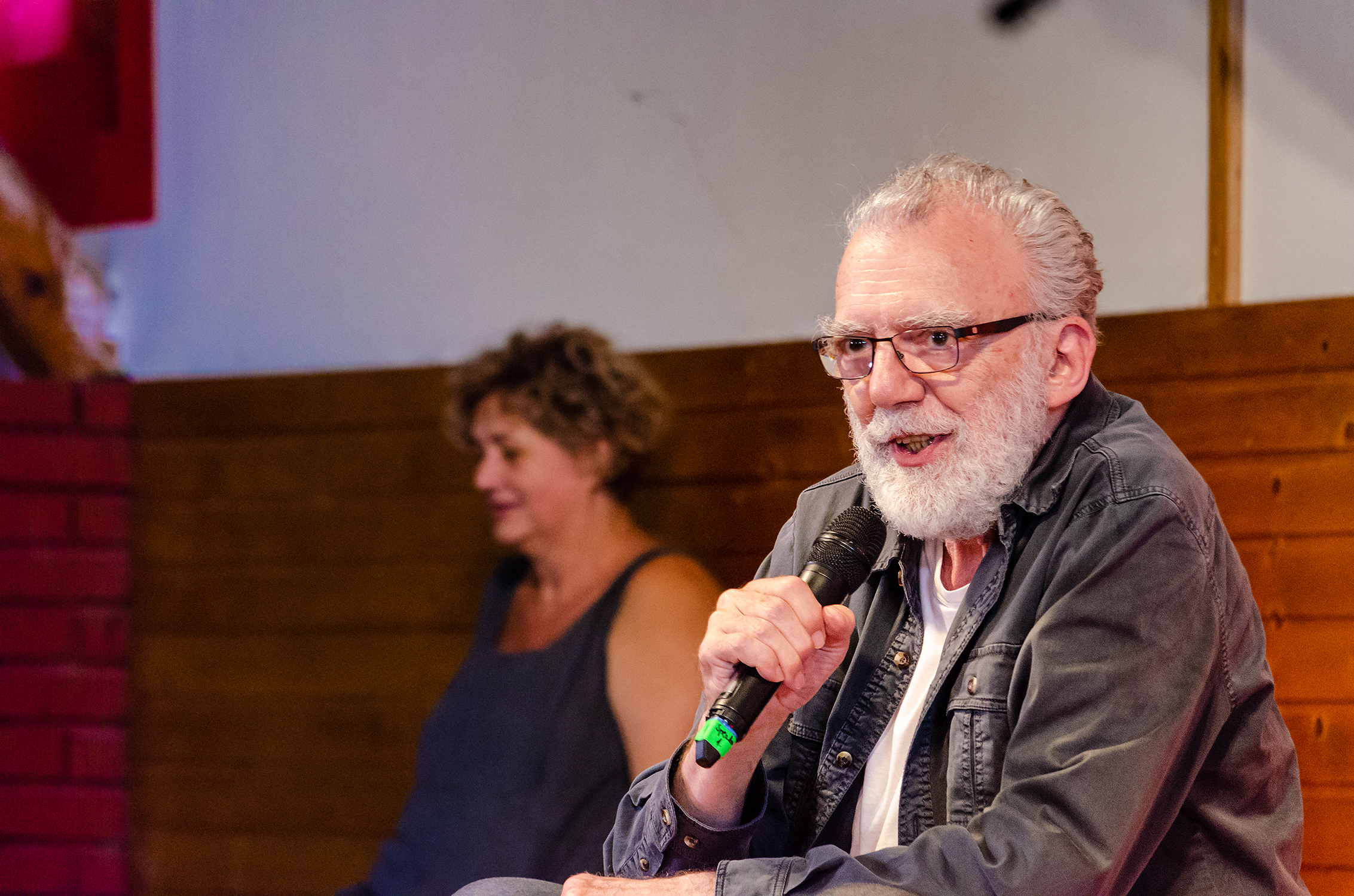 Andrew Feldmar